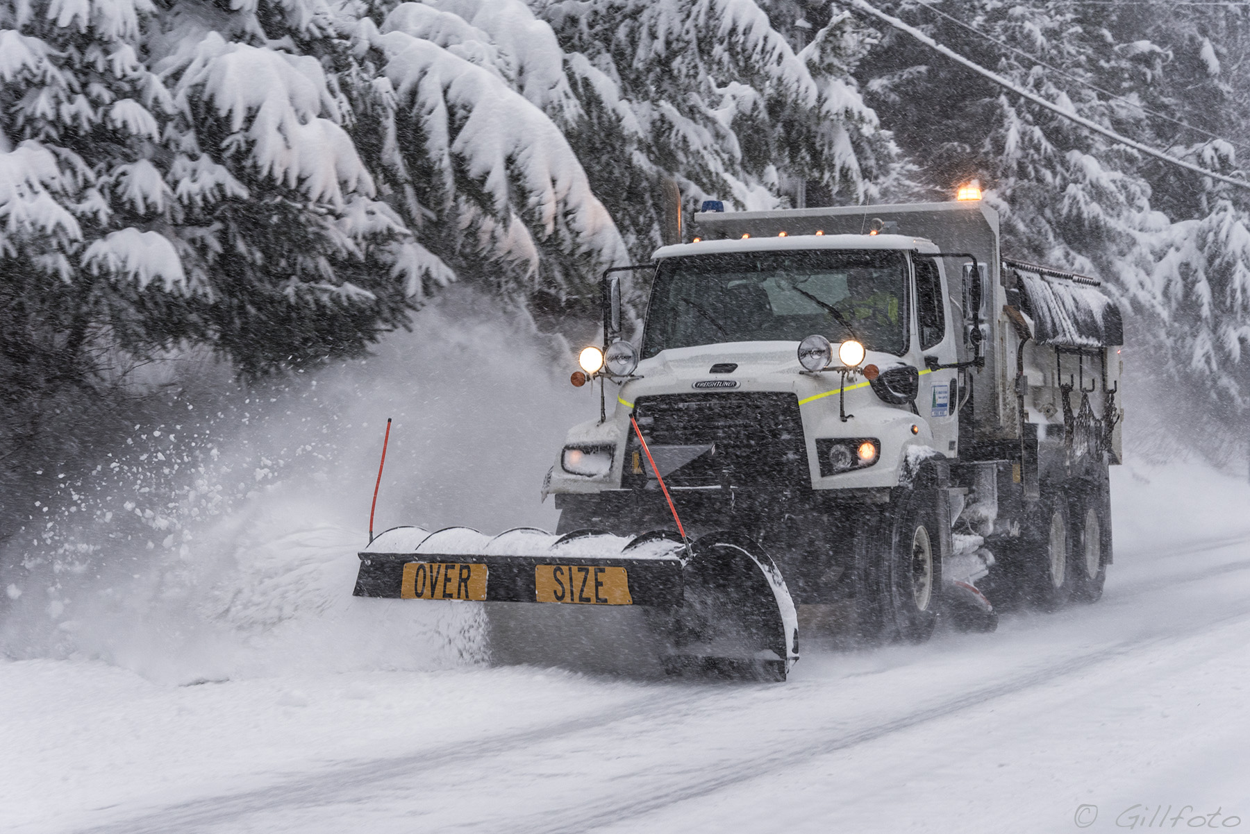 Winter Weather road conditions with CBJ Plow Truck, Juneau, Alaska